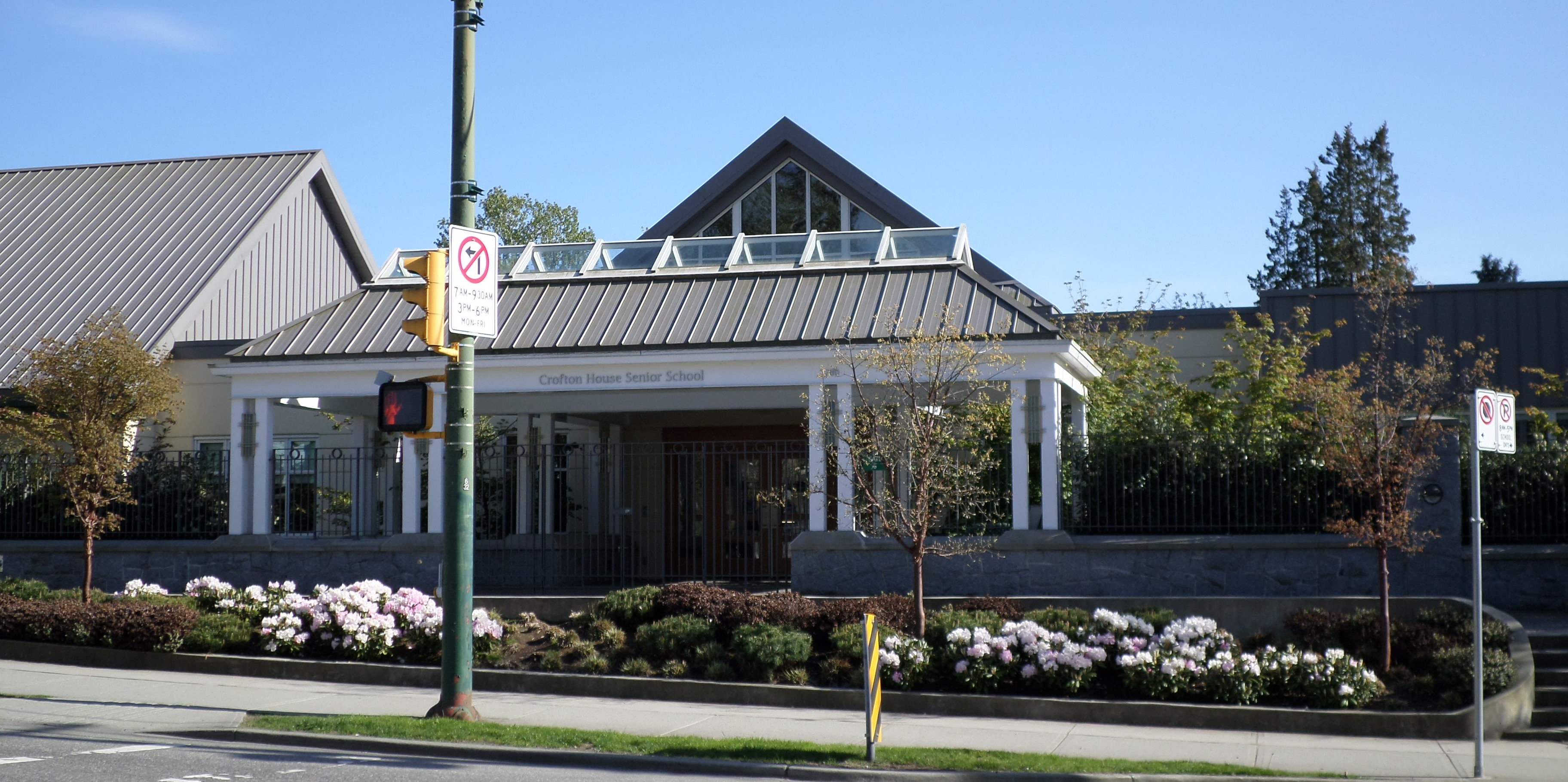 The Crofton House Senior School, located at 3200 W 41st Ave, Vancouver, BC.